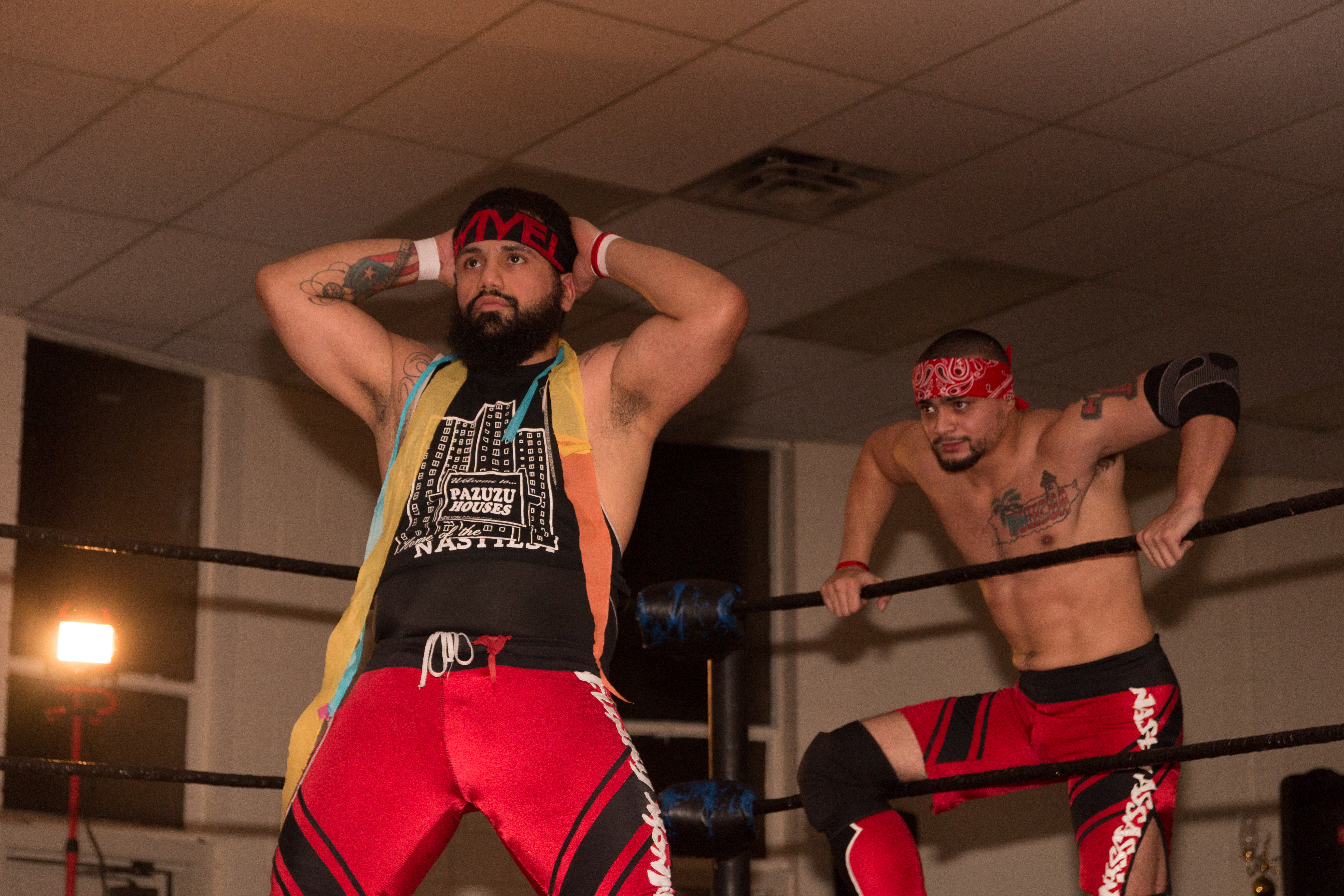 EYFBO (Angel Ortiz on the left and Mike Draztik) posing prematch at an Alpha-1 show in Hamilton, ON